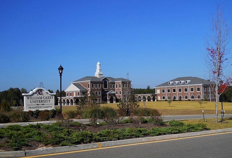 William Carey University, Tradition Campus location on State Highway 67 in Harrison County, Mississippi, USA